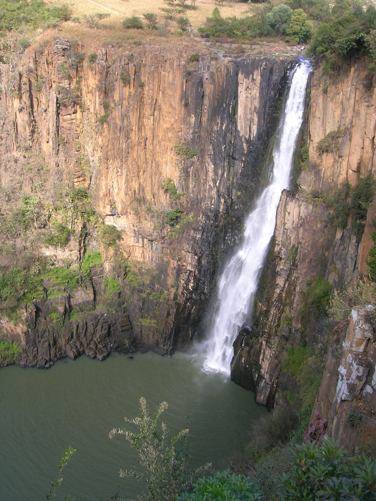 Howick falls, on the Umngeni River, in KwaZulu-Natal, South Africa